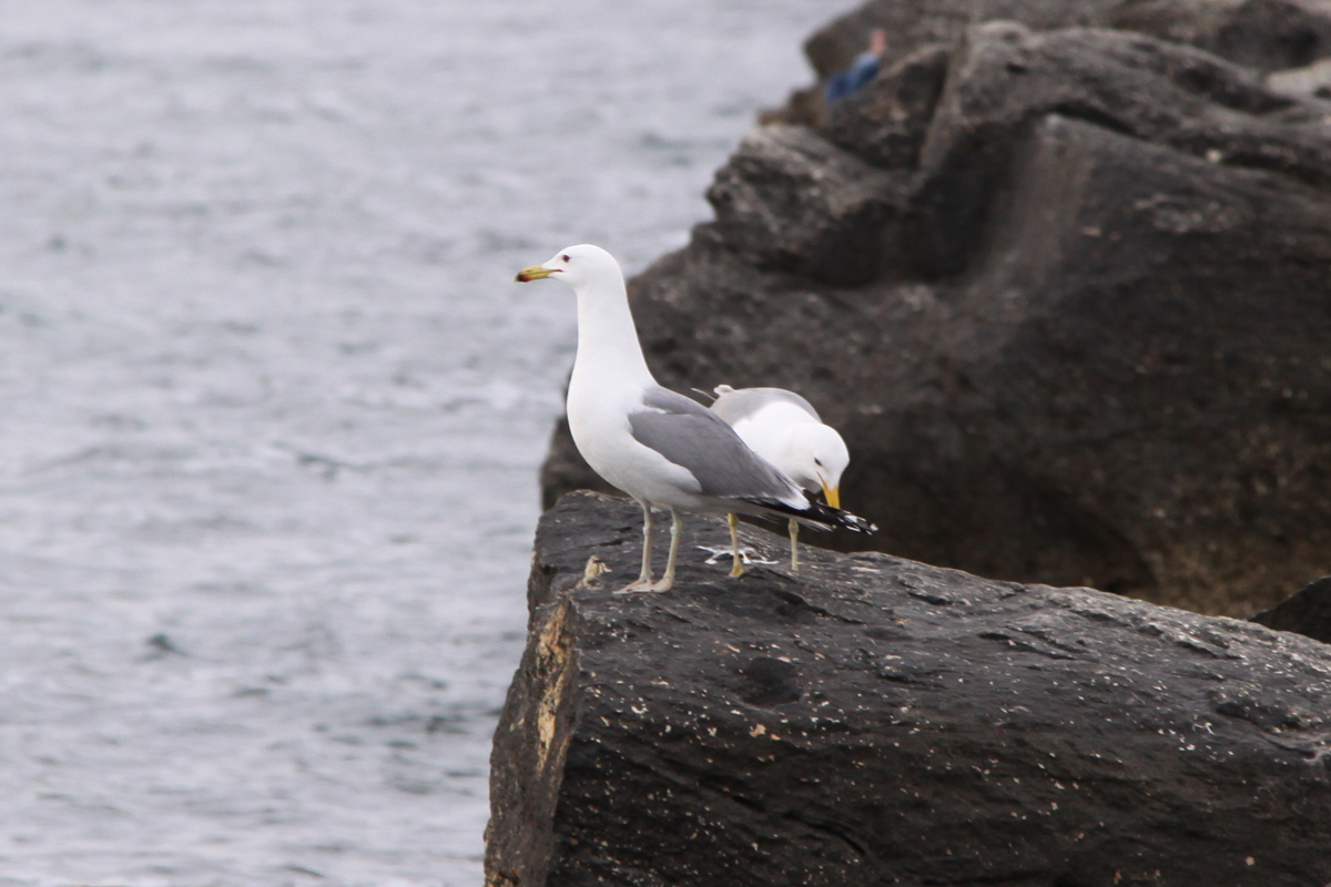 Populations of the Caspian Gull (Larus cachinnans) from the area east of the Caspian Sea are very similar to Larus fuscus barabensis, the southwest siberian subspecies of the Lesser Black-backed Gull. One of the current standard books on gulls says: It should be noted that the full range and ID features between barabensis and eastern cachinnans as well as from paler Heuglin’s Gull 'taimyrensis' is not fully understood. (Klaus Malling Olsen, Hans Larsson: Gulls of Europe, Asia and North America, Helm Identification Guides, Christopher Helm, London 2003, ISBN 978-0-7136-7087-5, S. 322)